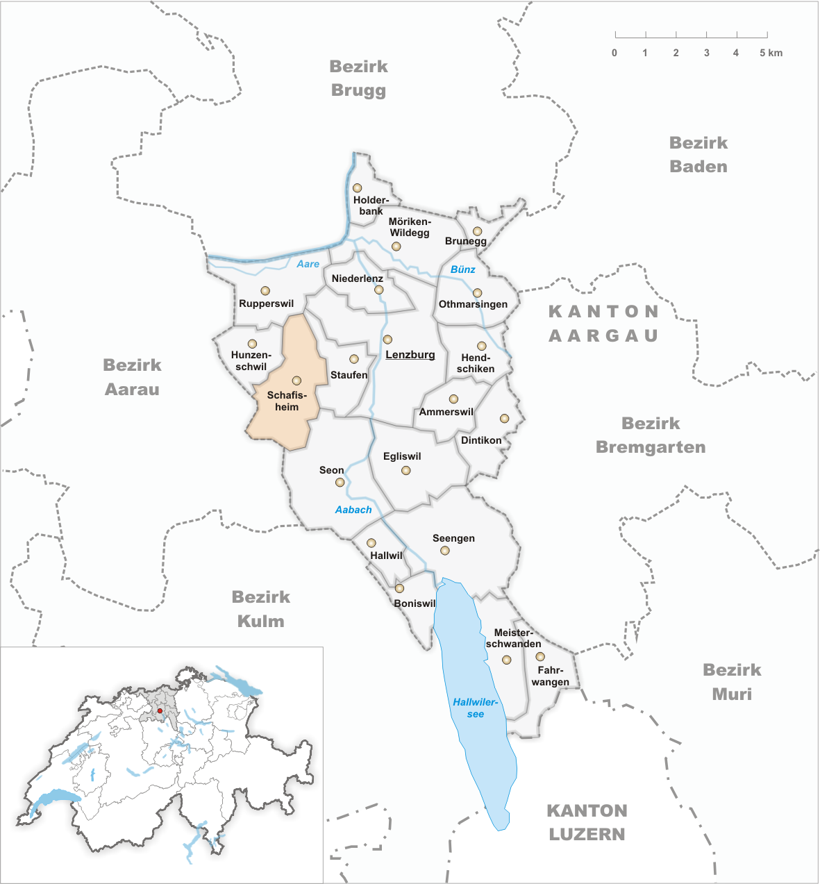 Municipality Schafisheim